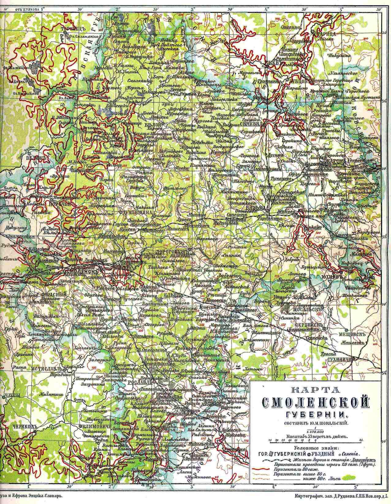 Map of Smolensk Governorate of Russian Empire from Brockhaus and Efron Encyclopedia